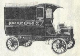 Picture from a 1906 Kansas City Motor Car Company print advertisement of a 1906 Kansas City Panel Truck.